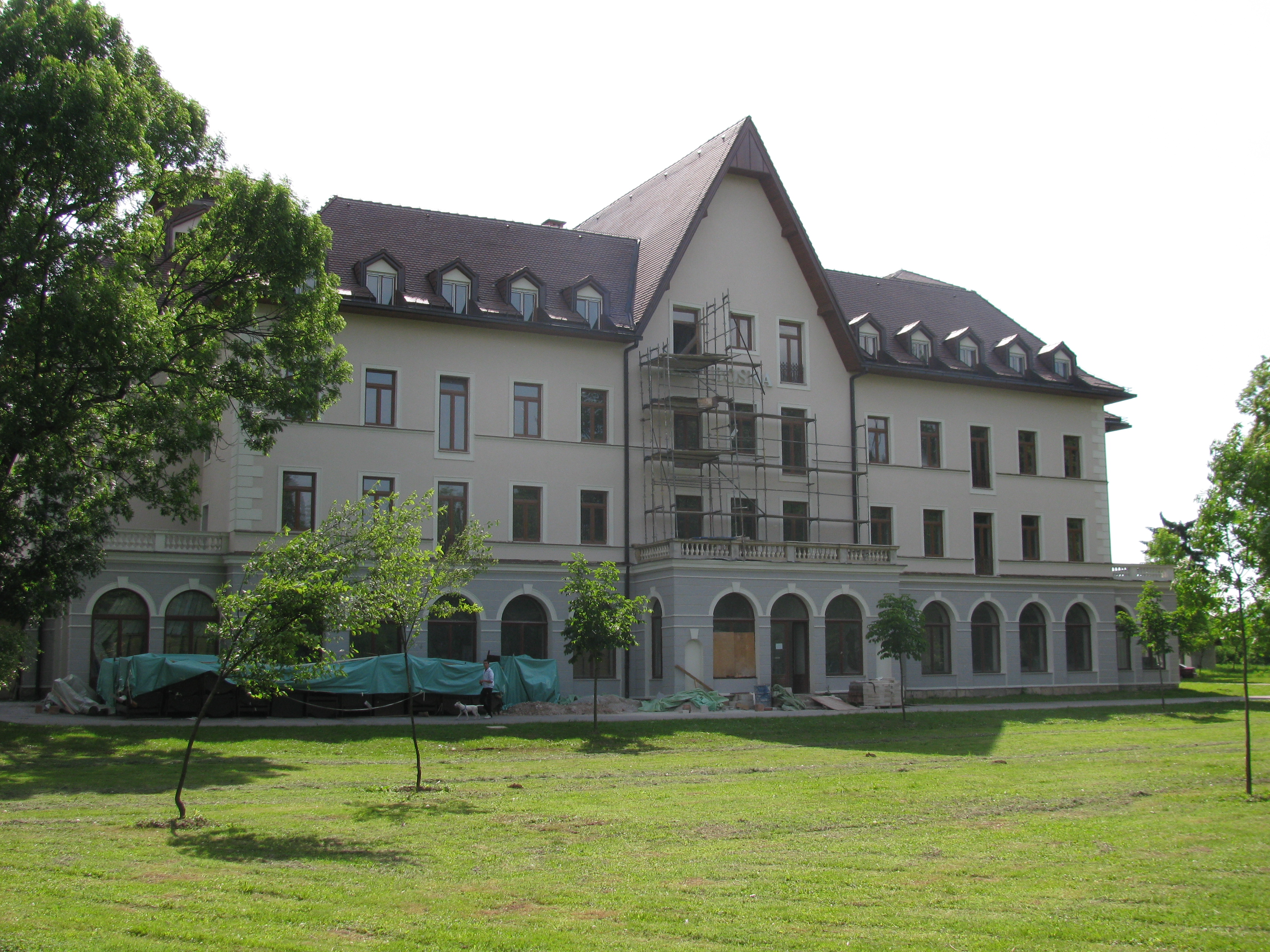 Hotel Bosna, Ilidža in 2010